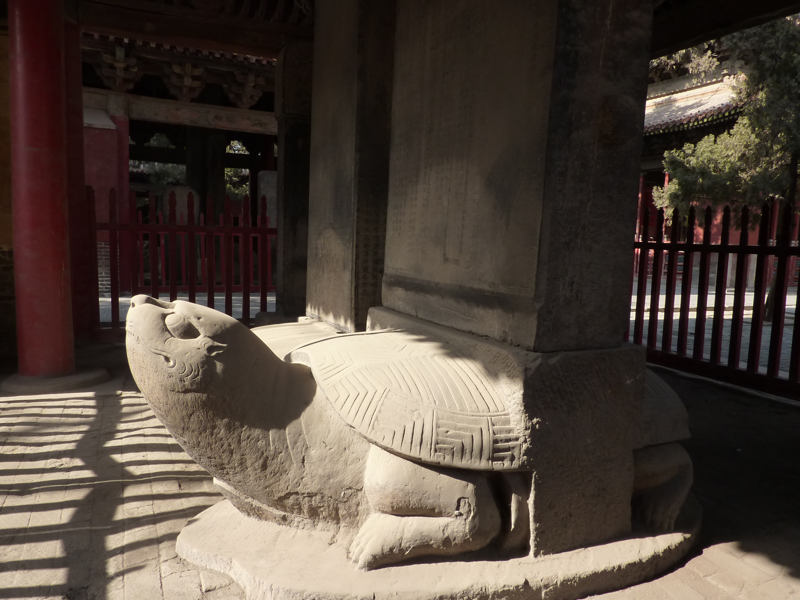 The 3rd pavilion, counting from the east, in the southern row of the Thirteen Stele Pavilions of the Temple of Confucius, Qufu. This pavilion houses 2 Song and Jin (Jurchen) Dynasty tortoise-borne steles, both facing south. The one seen in the photo is the eastern stele, from the Jin Dynasty.